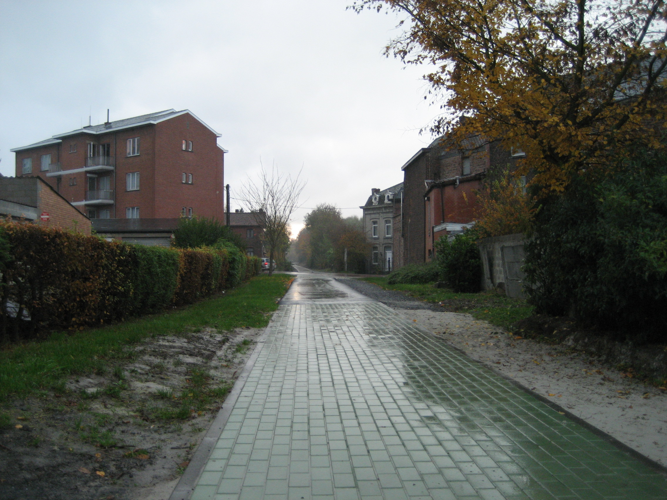 Ligne 108 Ravel in Binche